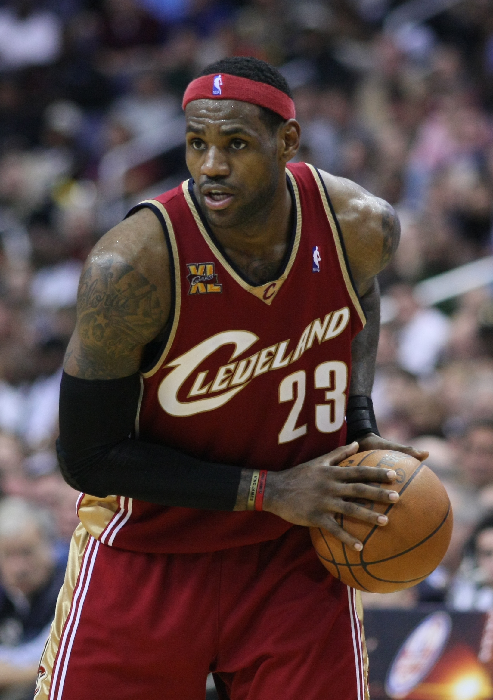 LeBron James. Washington Wizards v/s Cleveland Cavaliers November 18, 2009 at Verizon Center in Washington, D.C.